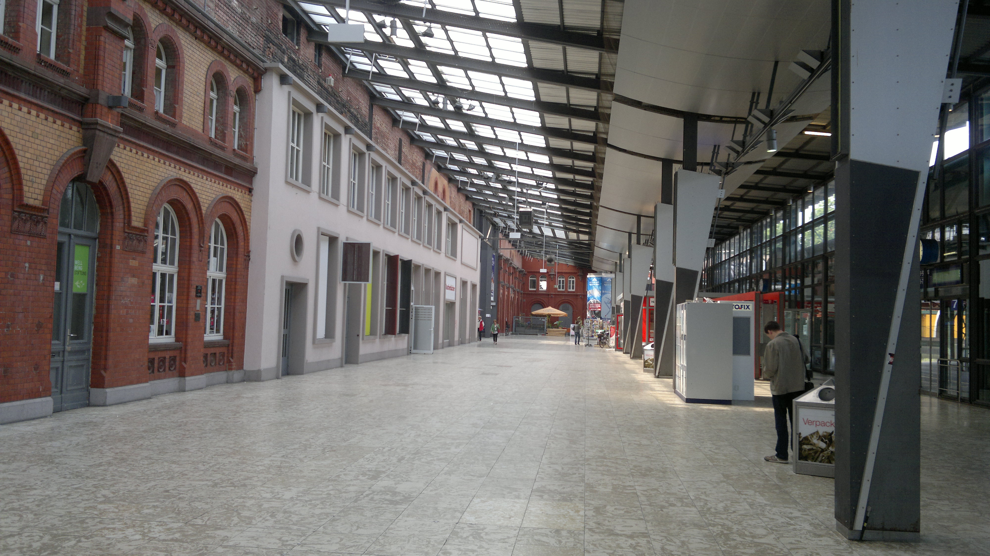 Kassel Central station